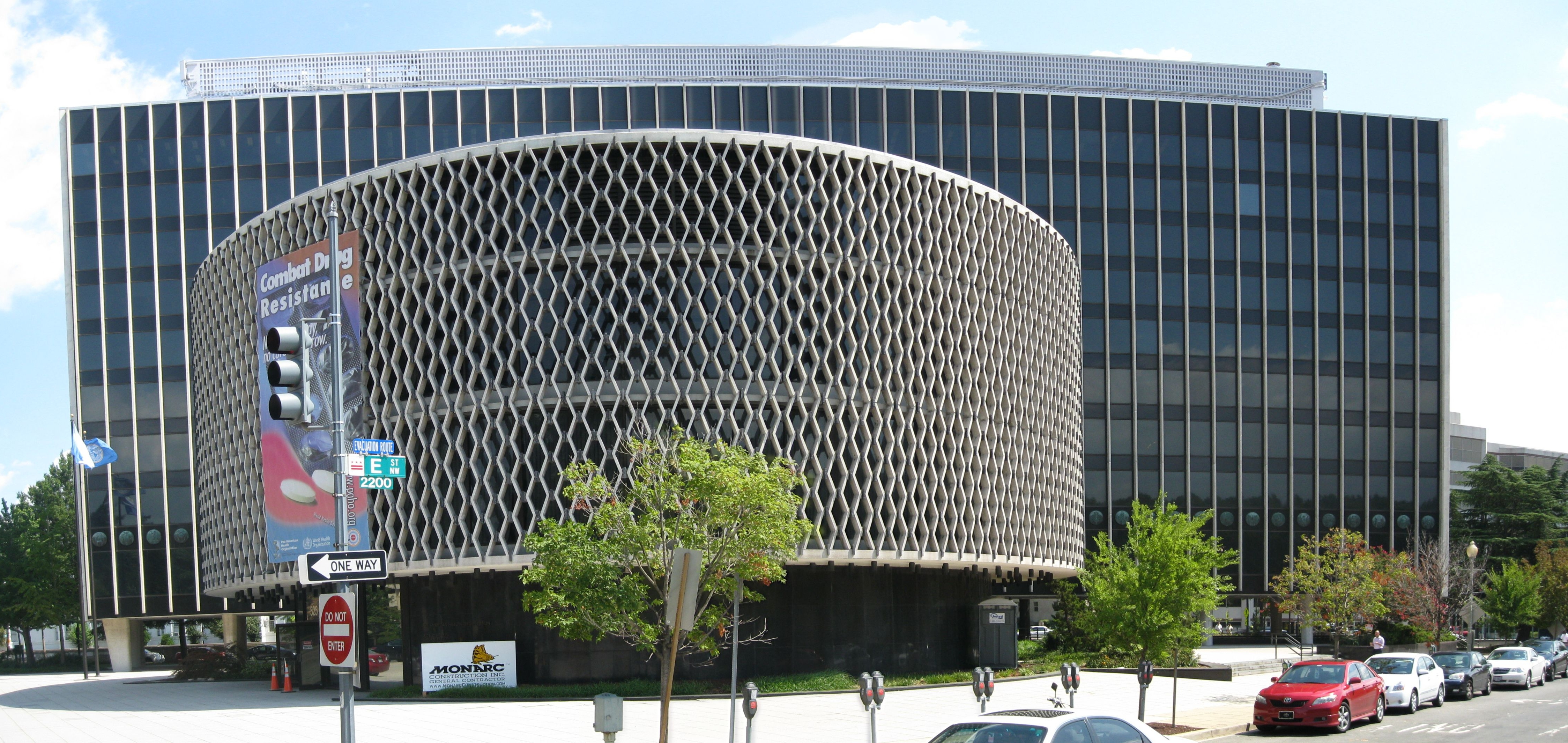 Headquarters building of the Pan American Health Organization, the World Health Organization's arm for the Americas, in Washington DC in the USA